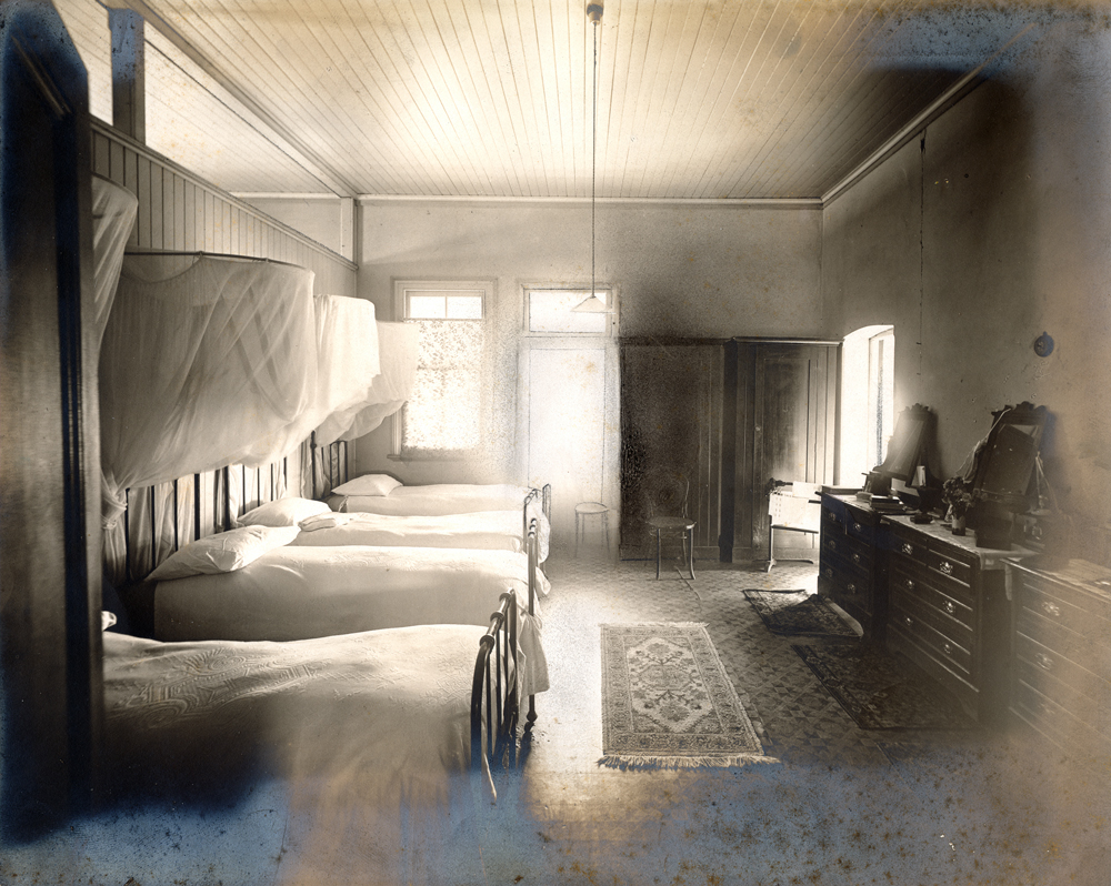 Ipswich Girls Grammar School, Dormitory, 1925